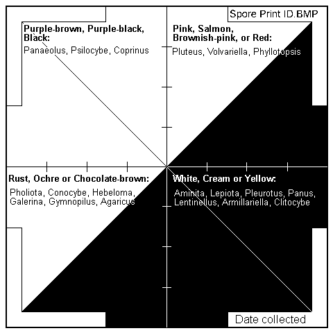 Sheet you can print to make a spore print and start identification